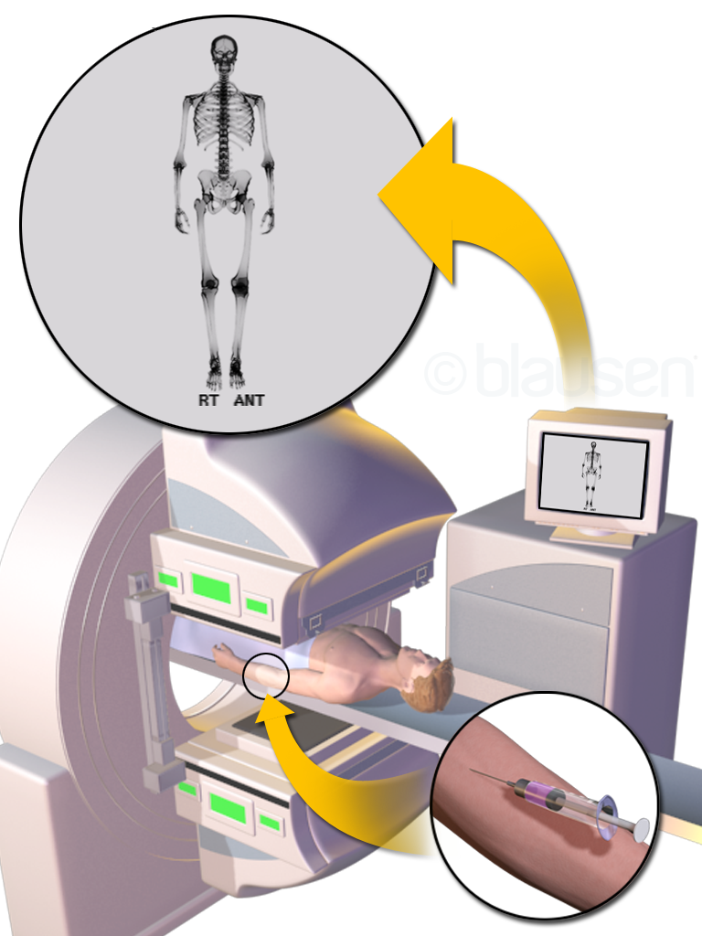 Bone Scan. See a full animation of this medical topic.